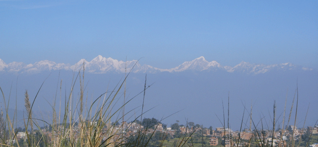 Dhulikhel, Nepal